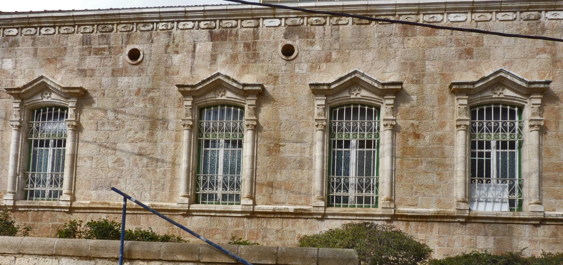 Jerusalem, 10 Habukharim Street (aka David street)- Beit Davidof בית יוסף דוידוף 1914 (1